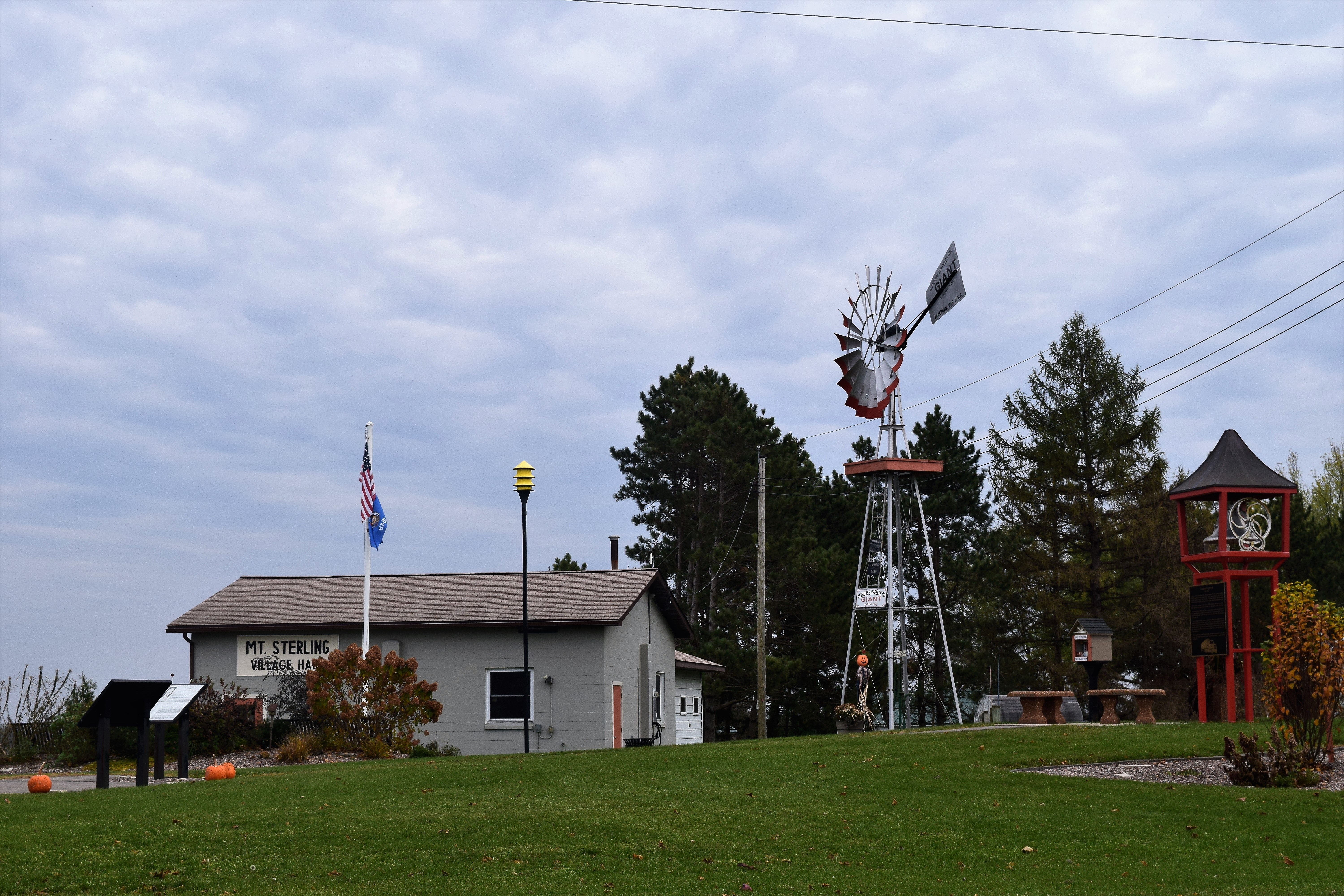 The village hall and a public park with a windmill in Mount Sterling, Wisconsin.